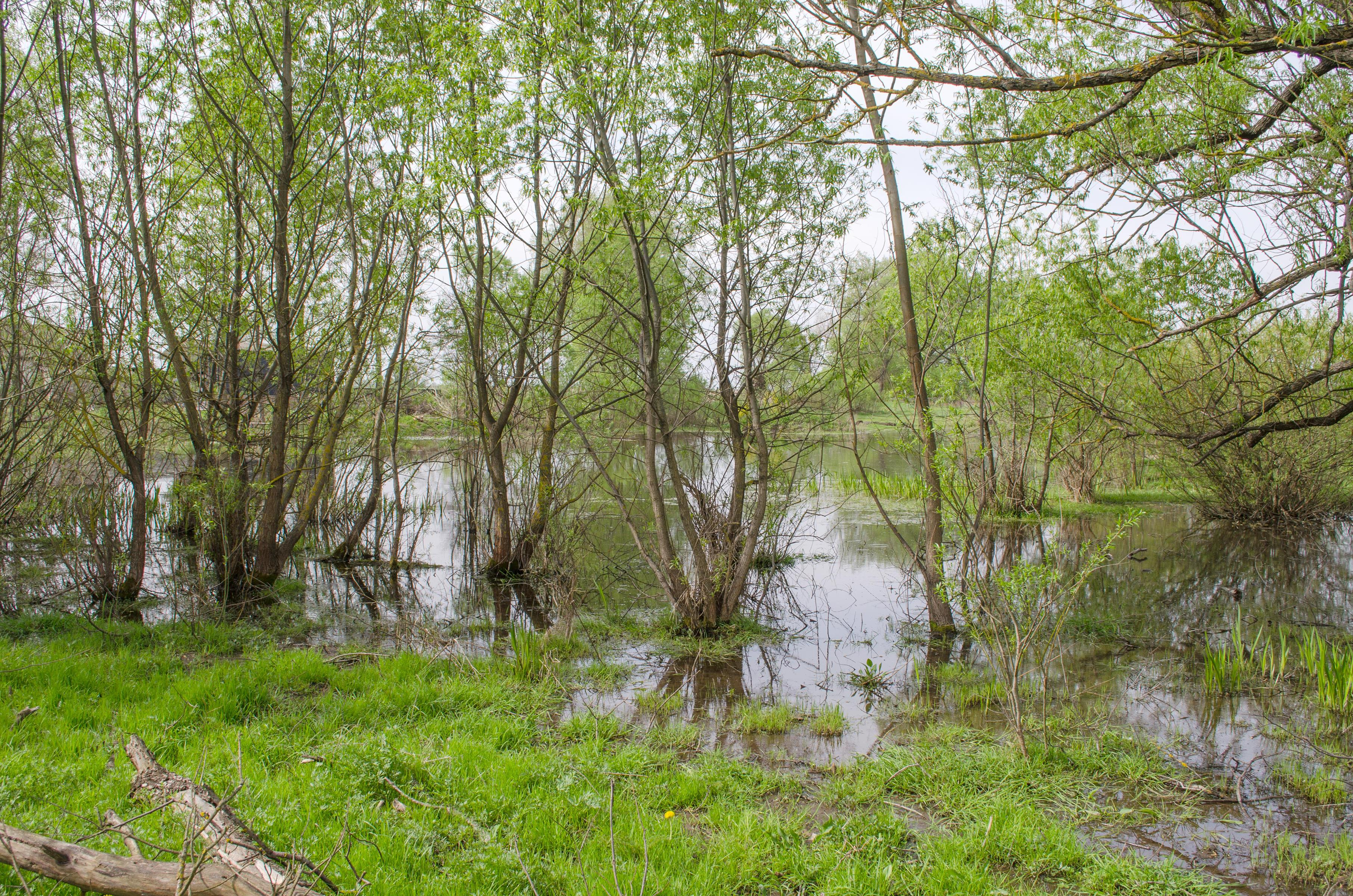 v.Berezanka, Chernihiv Raion, Chernihiv Oblast, Ukraine